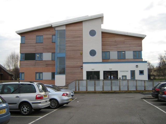 Community House Rather strange building opposite Selby Methodist Church